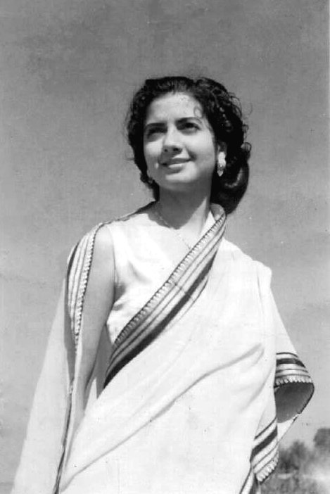 Source: Mrs Yasmine Shahid Ahmed, daughter of Zaib-un-Nissa Hamidullah. Creator: Ahmed Ali; rights given to sister Zaib-un-Nissa Hmaidullah; passed to niece Yasmine Shahid Ahmed.